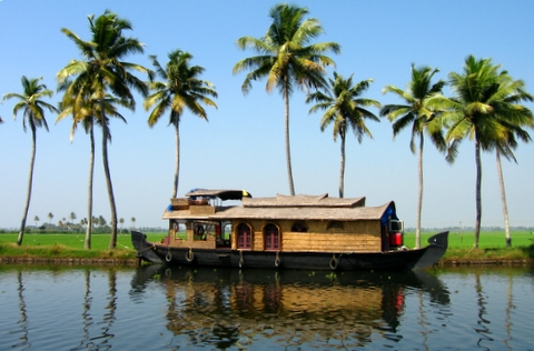 A typical houseboat in the Kerala backwaters near Alleppey, Kerala, India.